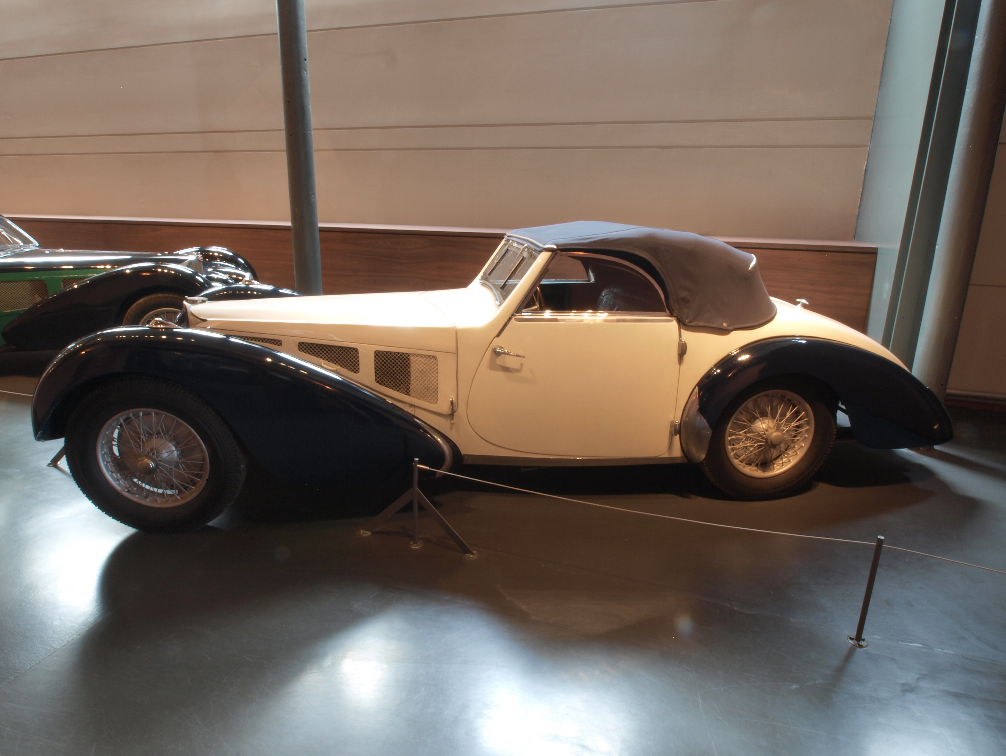 Bugatti Type 57 S or SC Cabriolet "Aravis"; photographed at the Cité de l’Automobile, France. OLYMPUS DIGITAL CAMERA